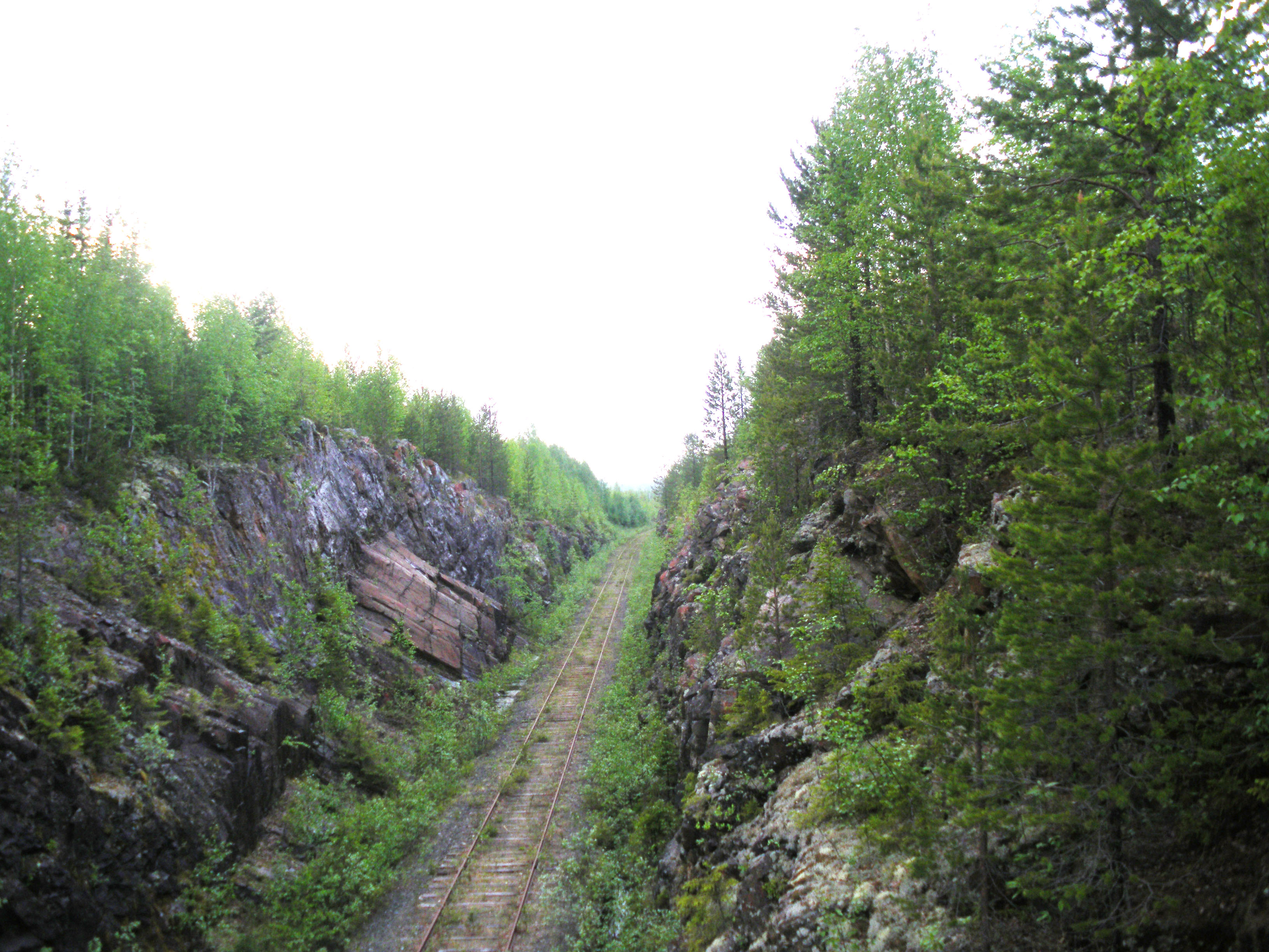 A closed railway Pesiö–Taivalkoski. A picture towards north from the bridge of Murhivaarantie road (local road 19353; Ahjola–Näljänkä) in Suomussalmi, Finland.